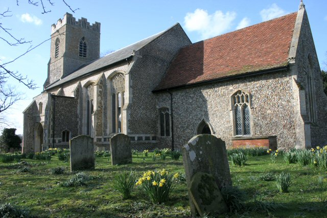 Church of St Mary in the parish of Rickinghall Superior, Suffolk, England. A Grade I listed medieval church.